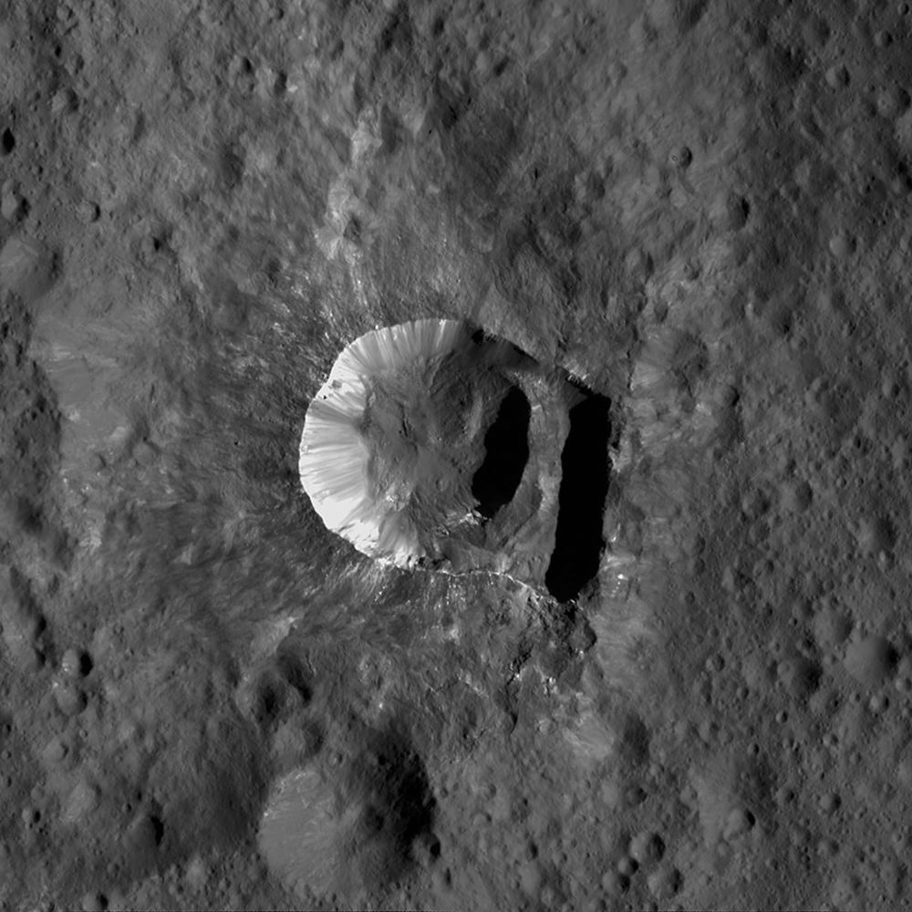 The 6-mile-wide (10-kilometer-wide) crater named Oxo is the second-brightest feature on Ceres. Only Occator's central area is brighter. Oxo lies near the 0 degree meridian that defines the edge of many Ceres maps, making this small feature easy to overlook. NASA's Dawn spacecraft took this image in its low-altitude mapping orbit (LAMO), at a distance of 240 miles (385 kilometers) from the surface of Ceres. Oxo is also unique because of the relatively large "slump" in its crater rim, where a mass of material has dropped below the surface. Dawn science team members are also examining the signatures of minerals on the crater floor, which appear different than elsewhere on Ceres. North on Ceres is 32 degrees left of up. Dawn's mission is managed by JPL for NASA's Science Mission Directorate in Washington. Dawn is a project of the directorate's Discovery Program, managed by NASA's Marshall Space Flight Center in Huntsville, Alabama. UCLA is responsible for overall Dawn mission science. Orbital ATK, Inc., in Dulles, Virginia, designed and built the spacecraft. The German Aerospace Center, the Max Planck Institute for Solar System Research, the Italian Space Agency and the Italian National Astrophysical Institute are international partners on the mission team. For a complete list of acknowledgments, For more information about the Dawn mission, visit The original NASA image has been rotated 32 degrees counterclockwise, cropped, increased in linear pile density by a factor of 100/92 and converted from TIFF to JPEG format by the uploader.